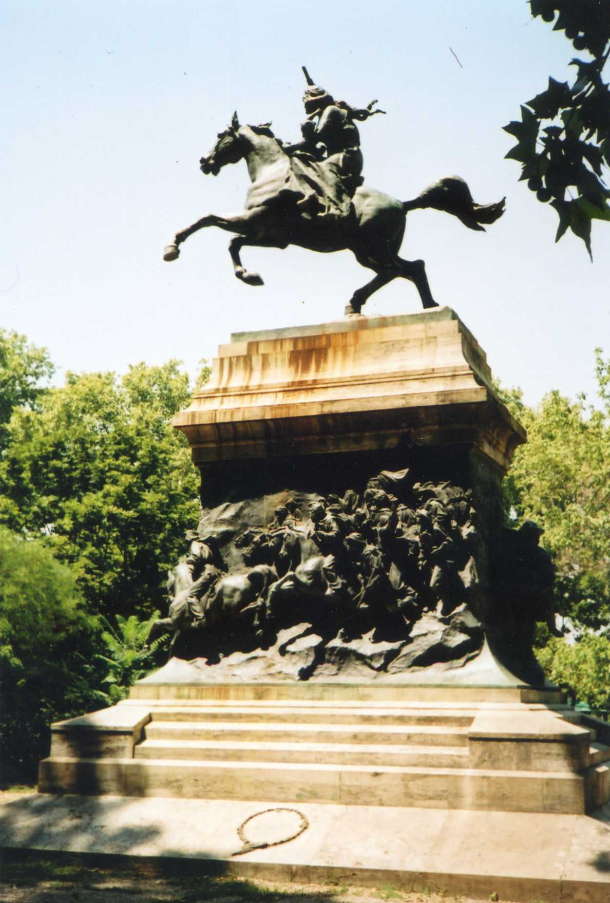 Mario Rutelli (1859 – 1941): Funerary Monument of Anita Garibaldi in Gianicolo, Rome.